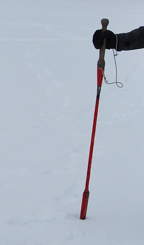 An "isbill" a tool for cutting holes in the ice, when fishing at winter.